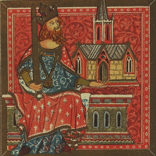 King Offa of Mercia from the Benefactors Book of St. Alban's Abbey.